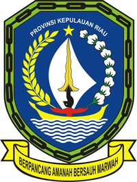 Coat of Arms (Lambang) of Province (Provinci) Riau Islands (Riau Kepulauan), Indonesia